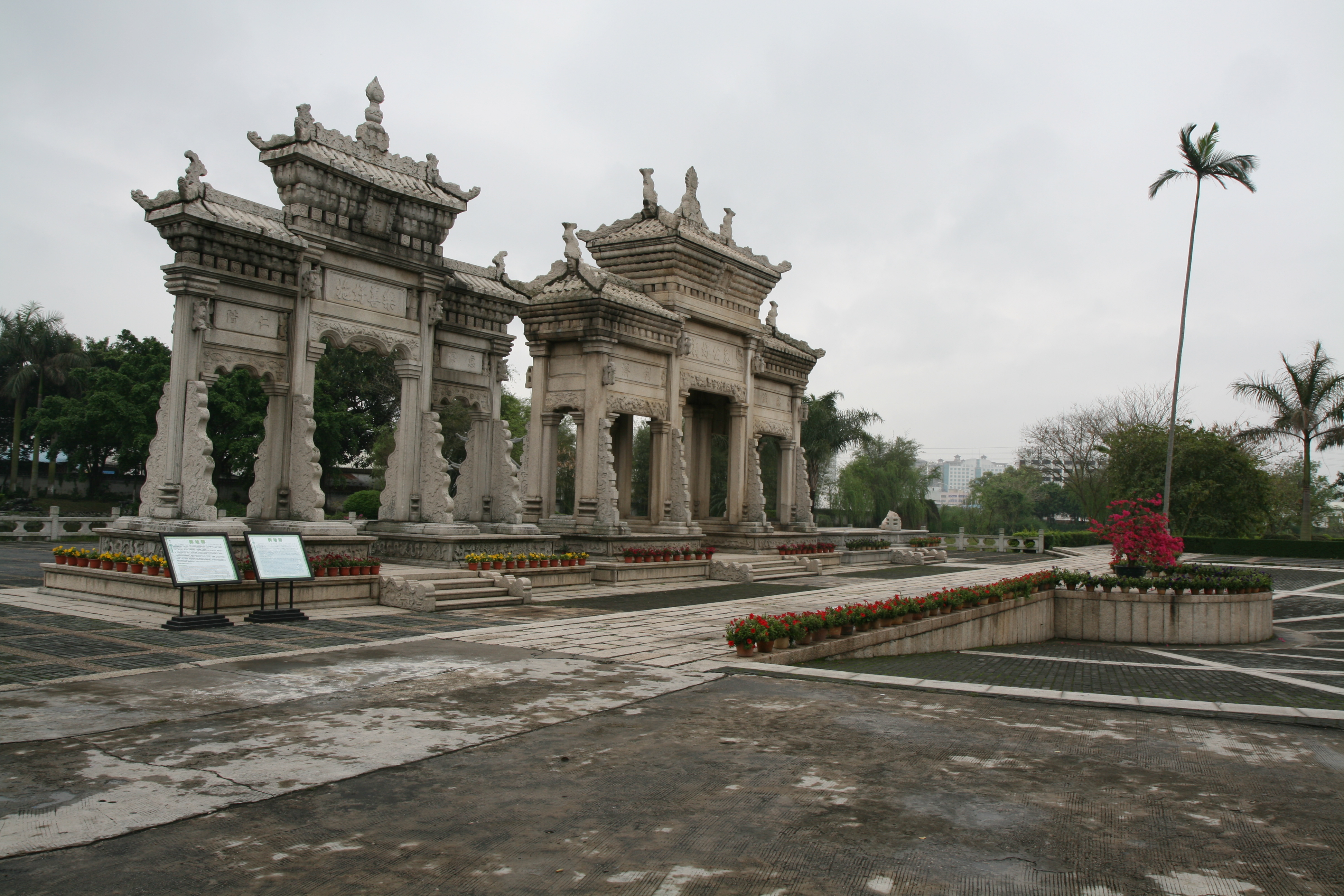 Mei Xi Memorial Arch in Zhuhai